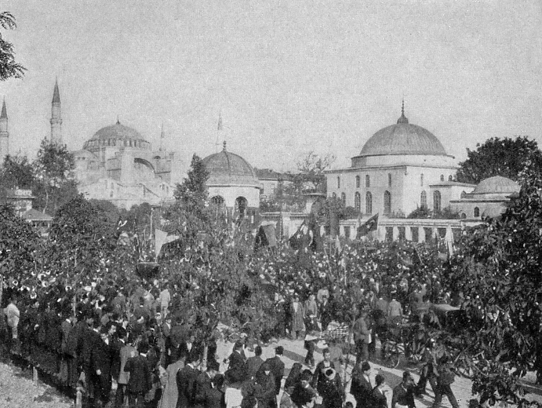 Demonstration in the Hippodrome